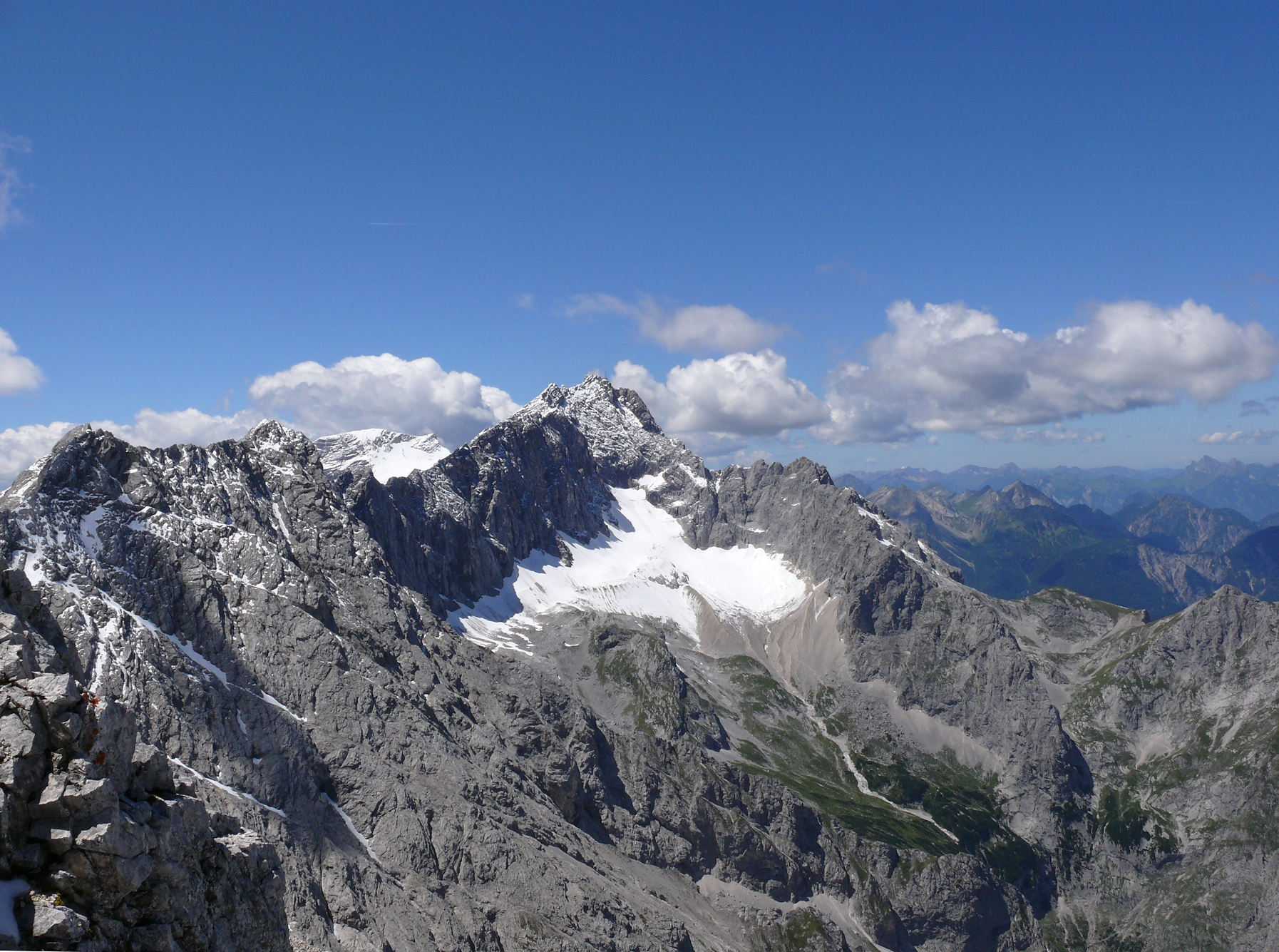 Zugspitze as seen from Alpspitze. Jubiläumsgrat is to the left.